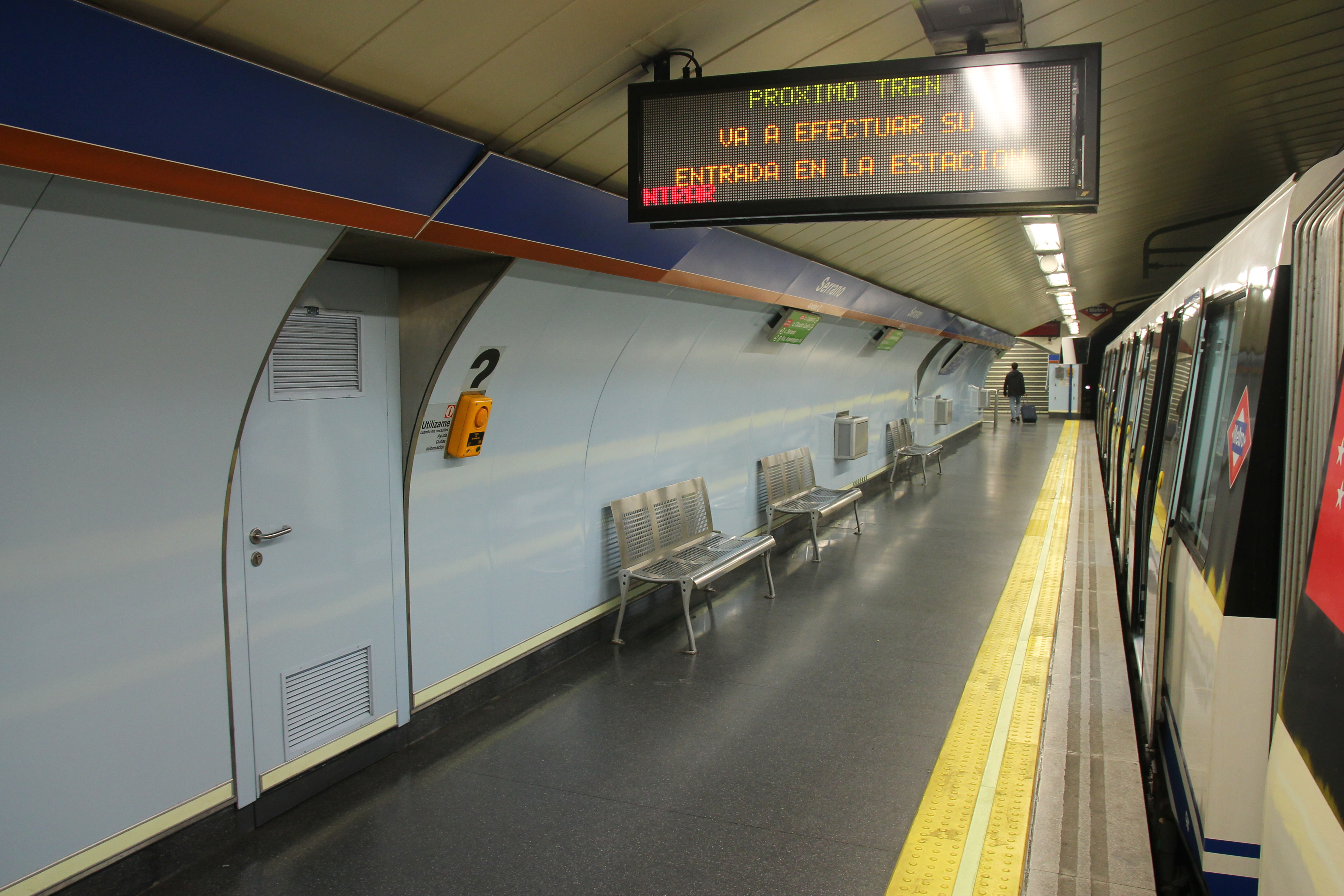 Estación de Serrano